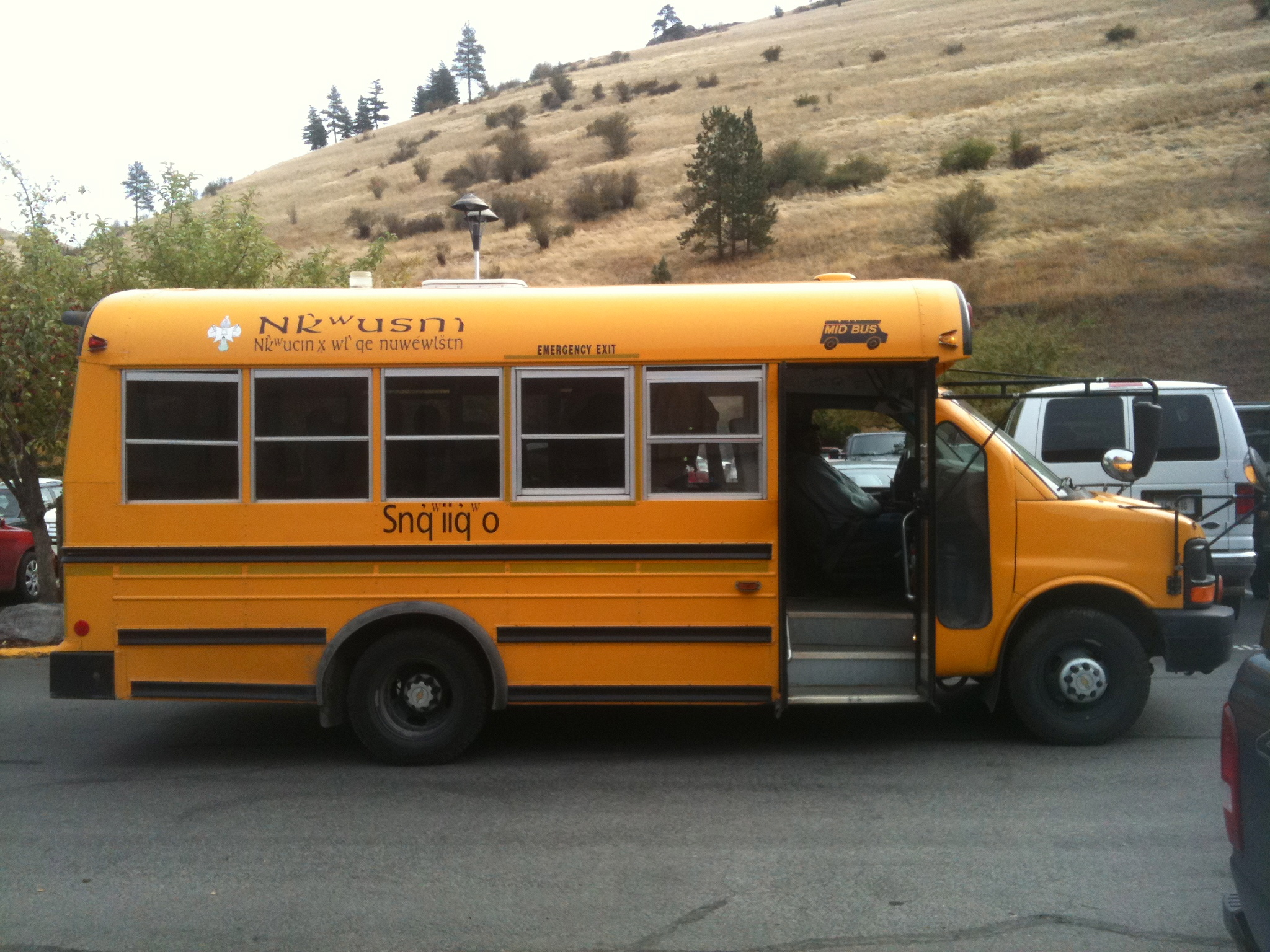 Salish language on schoolbus. Nkwusum Salish Language Revitalization Institute, Flathead Reservation, home of the Confederated Salish and Kootenai Tribes. "Sn" means "place." Photographed at University of Montana Missoula, October 2011.